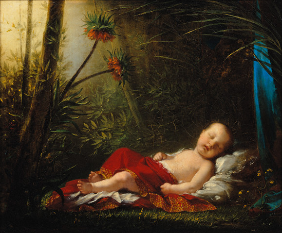 The King of Rome by Pierre-Paul Prud'hon